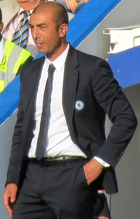 Roberto Di Matteo, Stamford Bridge, Chelsea September 2012